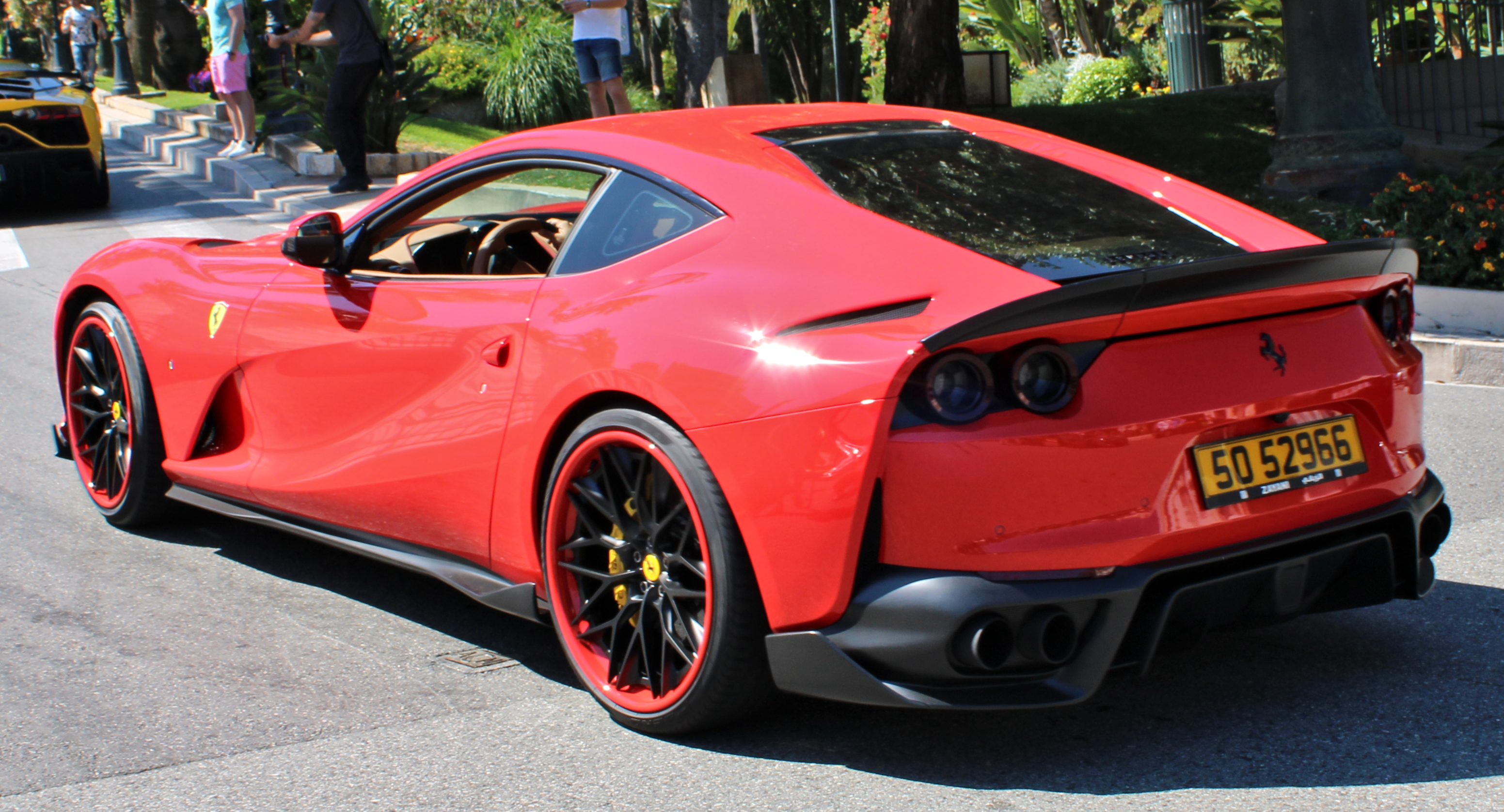 Ferrari 812 Superfast in Monaco